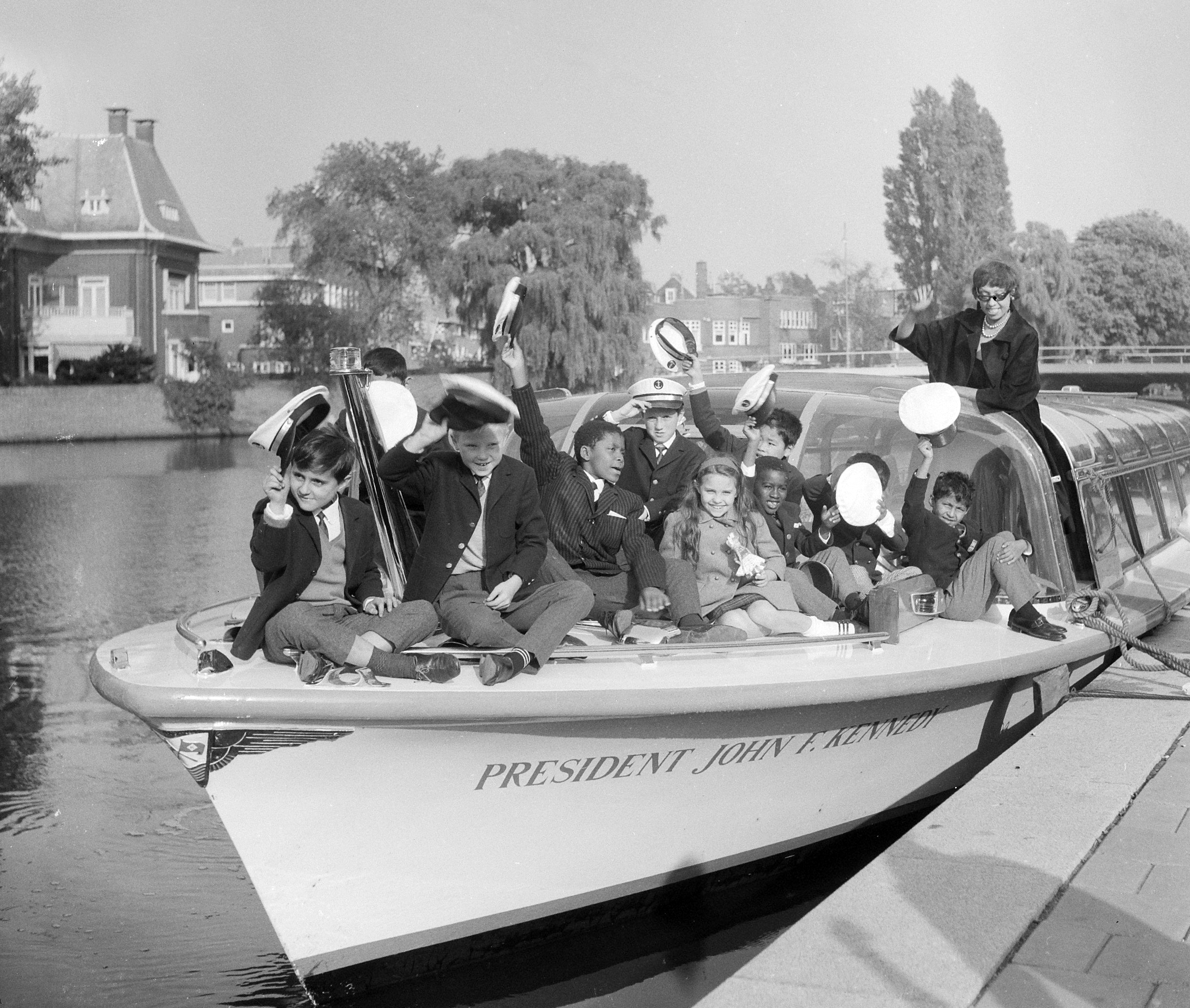 Josephine Baker and her 10 adopted children in a tour boat (President John F. Kennedy) in Amsterdam (the Netherlands), 4 October 1964